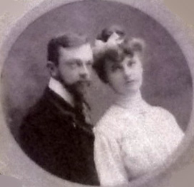 Fritz de Brouckère (1879-1928), a Belgian painter and his wife Adrienne de Rycker